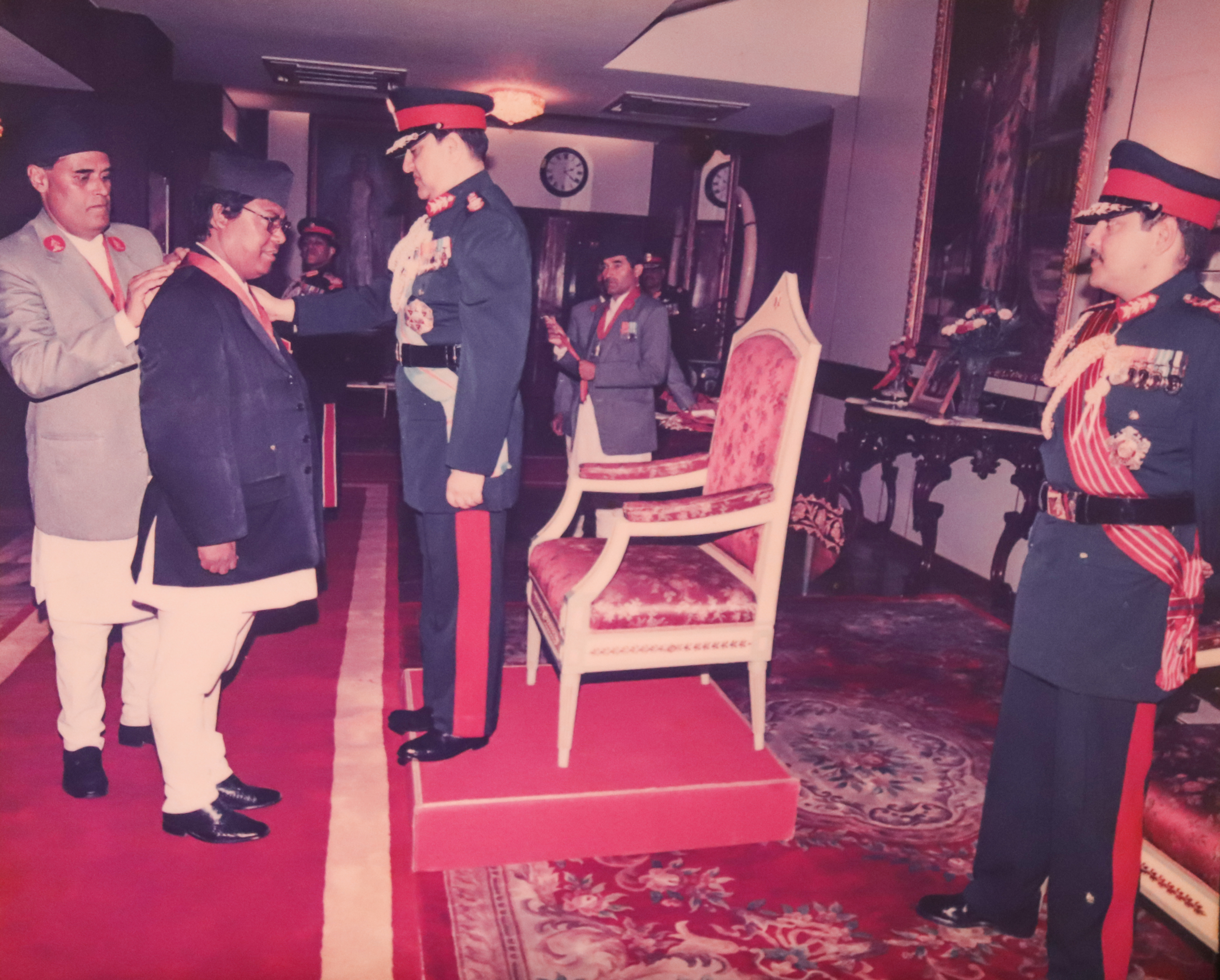 Purna Nepali taking award with King Gyanendra Bir Bikram Shah